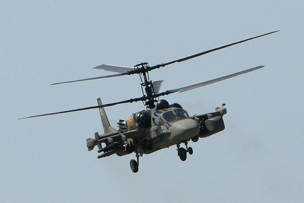 Kamov Ka-52 during the MAKS 2997 airshow.